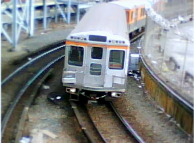 Broad Street Subway train enters Fern Rock Transportation Center Station.